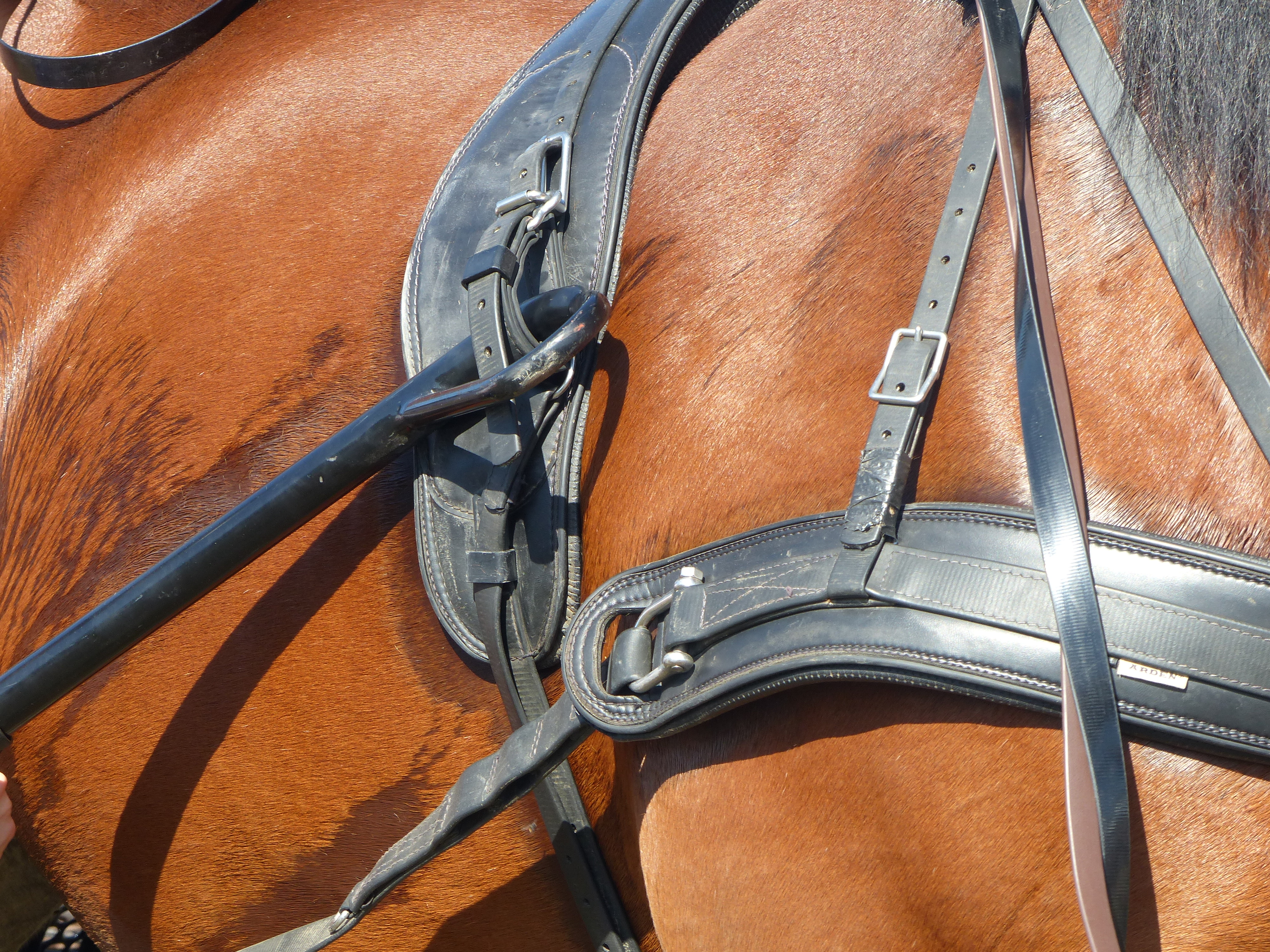 Breastcollar and girth on a draft horse, la Prevalaye, Rennes, France, september 2019